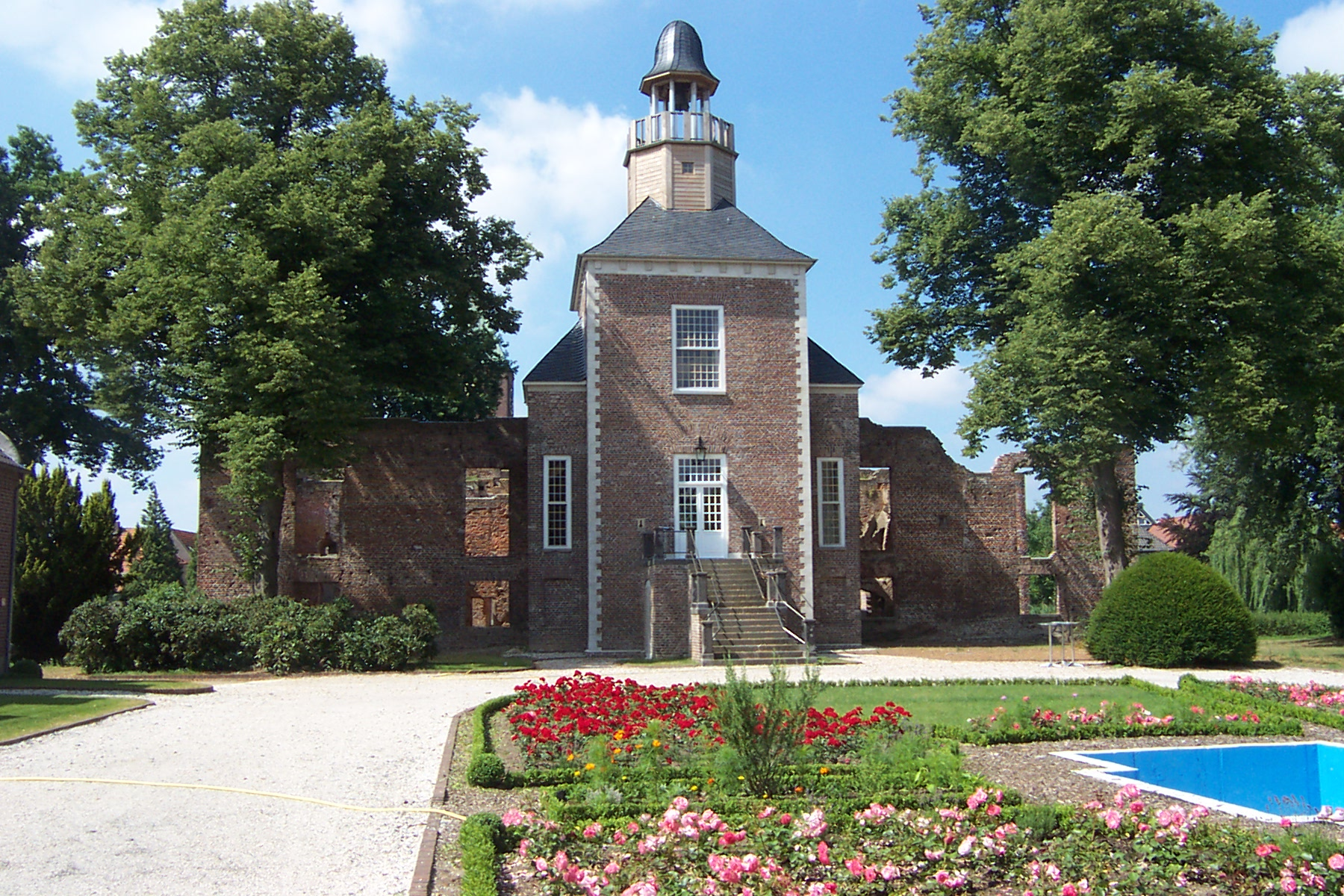 Castle ruin Hertefeld in Weeze after restauration